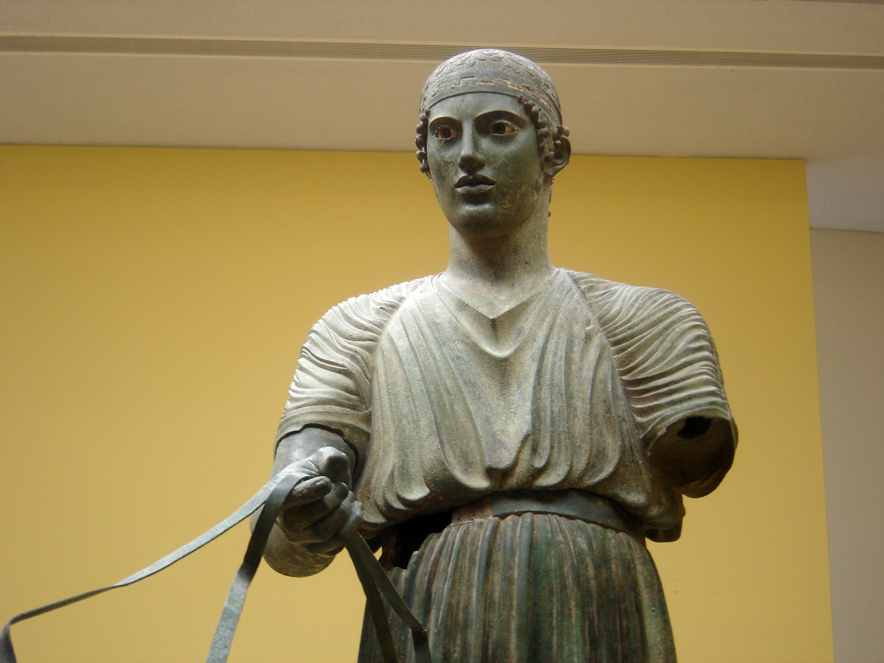 The famous statuette of Heniochus (Ηνίοχος), kept in Archaeological Museum of Delphi.